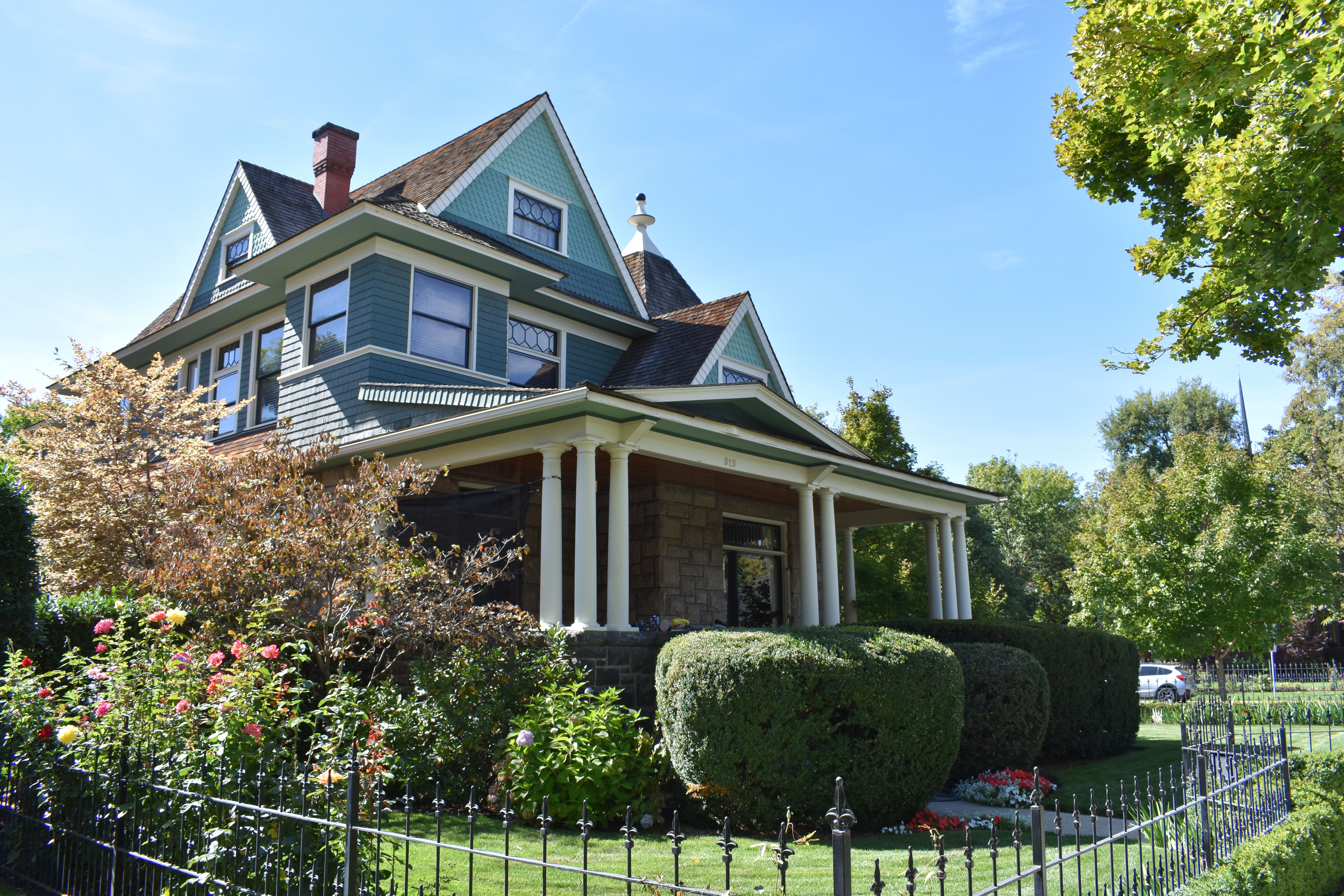 The John Haines House (1904) in Boise, Idaho, was designed by Tourtellotte & Co. and is listed on the National Register of Historic Places.